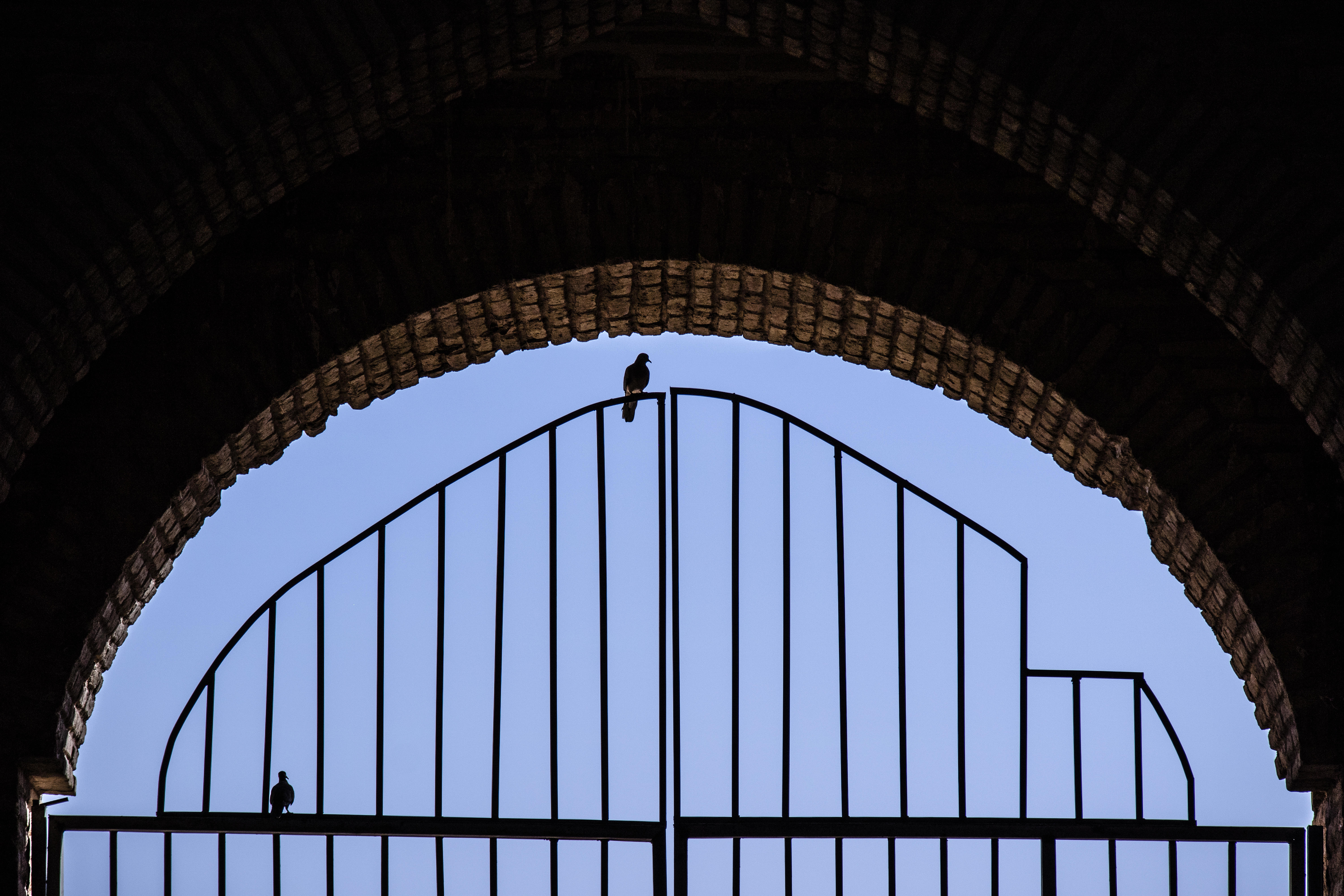 Deir-e Gachin Caravansarai is one of the greatest caravansarais of Iran which is located in the center of Kavir National Park. Its unique qualities is the reason it is called “Mother of Iranian Caravansarais”. It is located in the Central District of Qom County, 80 kilometers north-east of Qom (60 kilometers into Garmsar Freeway) and 35 kilometers south-west of Varamin. (Photo by: Mostafa Meraji, wiki loves monuments 2018)